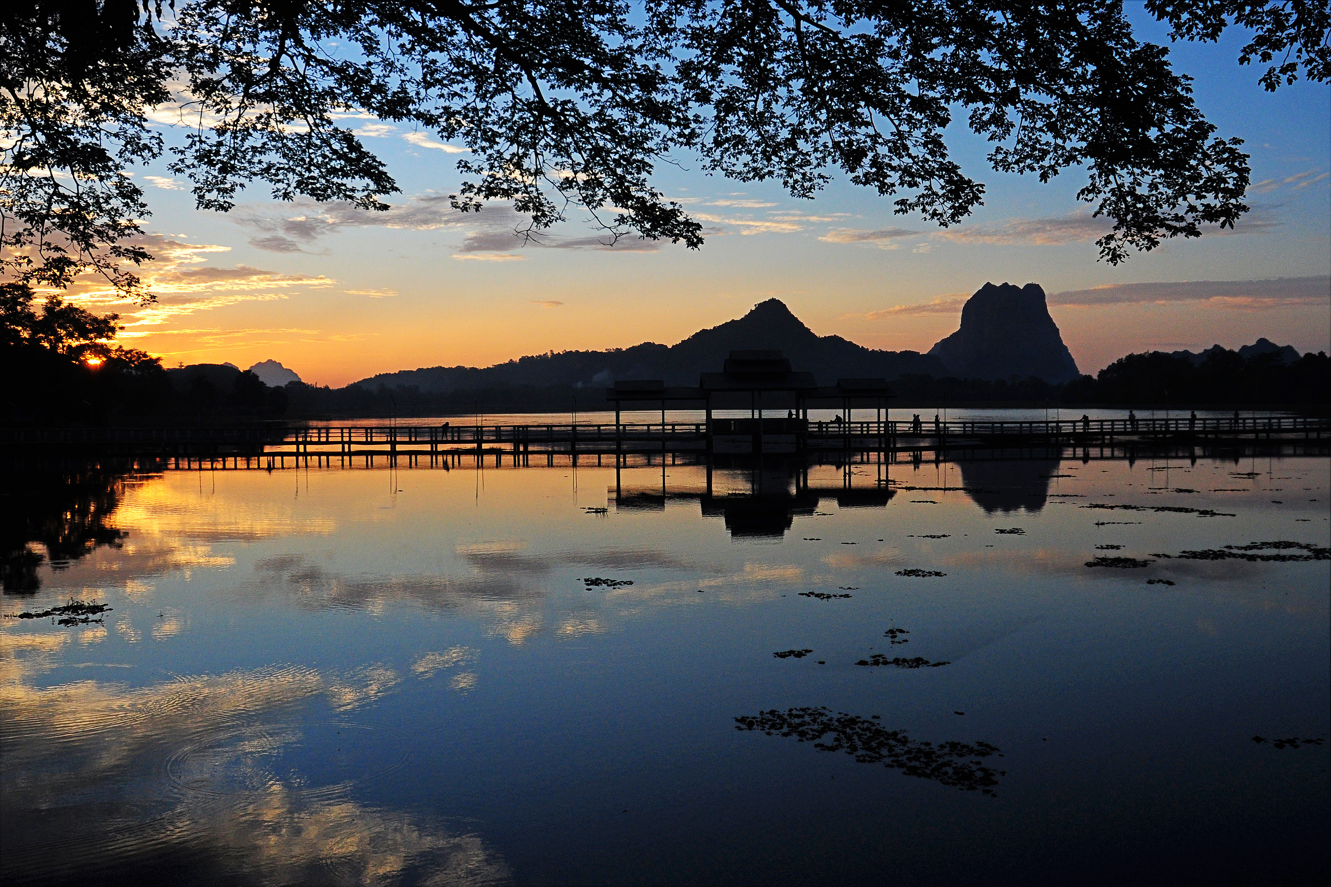 Kanthaya Lake and Mount Zwe Kabin, located at Hpa-an, Kayin State of Myanmar